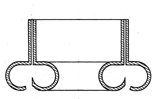 High level whistle